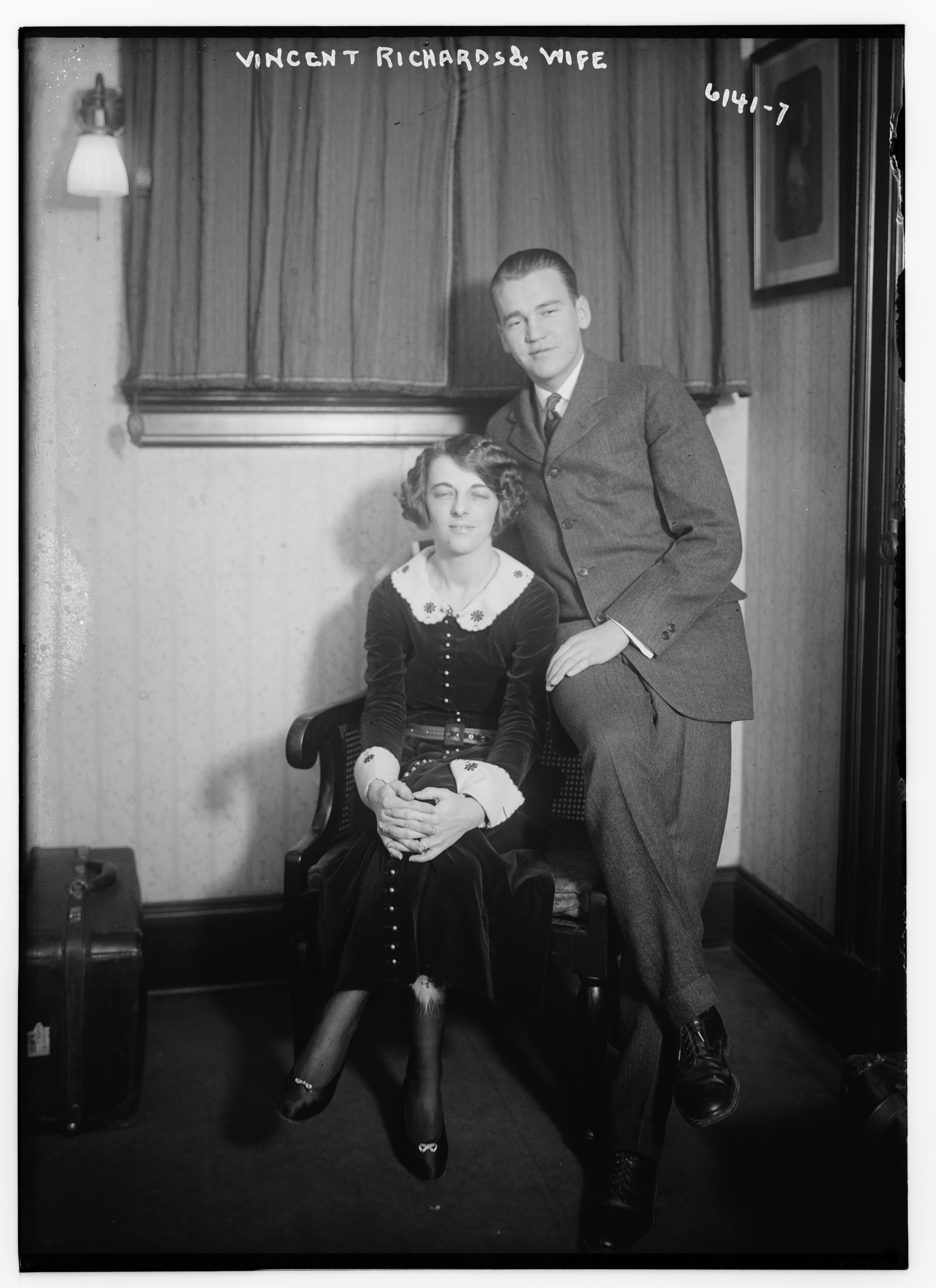 Title: Vincent Richards and wife 8Abstract/medium: 1 negative : glass ; 5 x 7 in. or smaller.